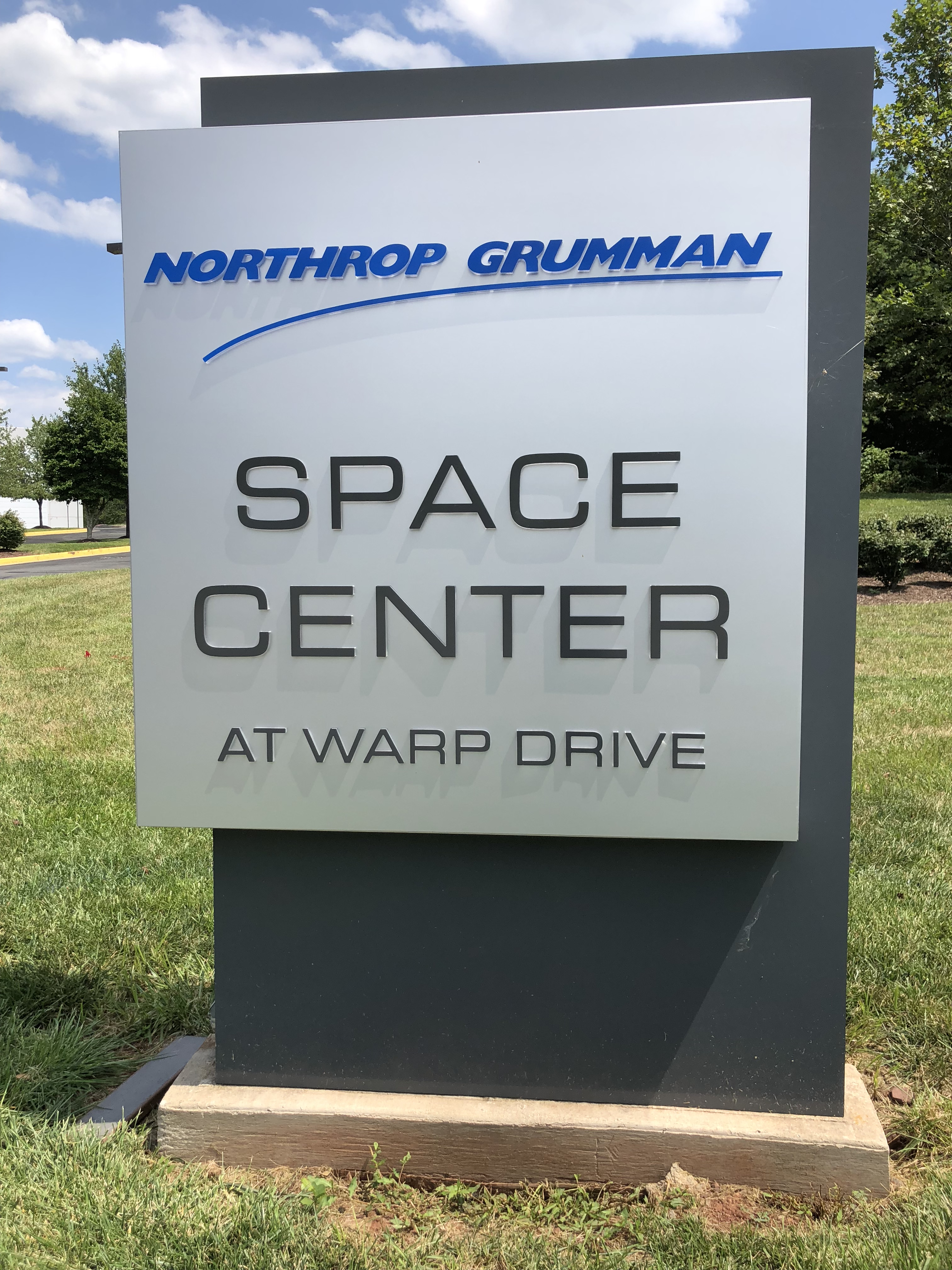 Sign at the entrance to the Northrop Grumman Space Center at Warp Drive along Atlantic Boulevard in Sterling, Loudoun County, Virginia